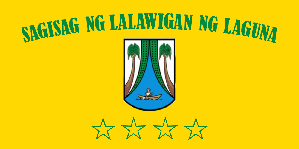 Provincial flag of Laguna